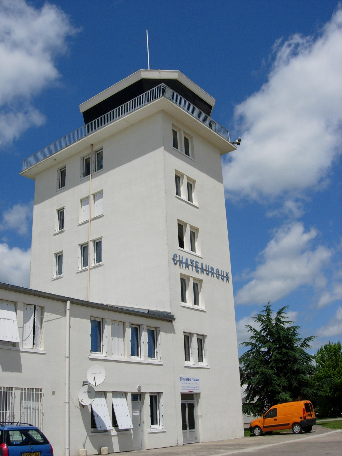 Control tower of Châteauroux Déols Airport.